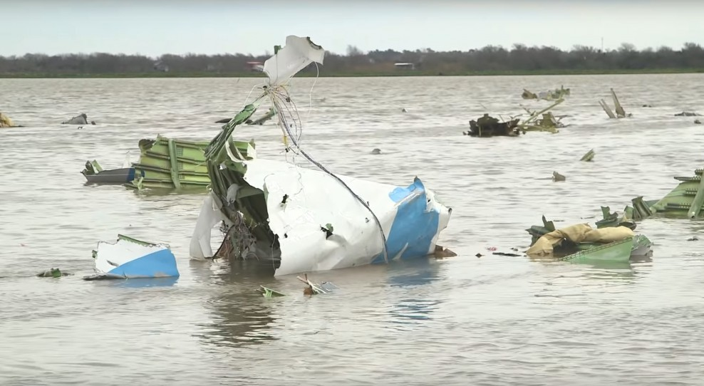 Atlas Air Flight 3591（B-767-375/N1217A） crash site